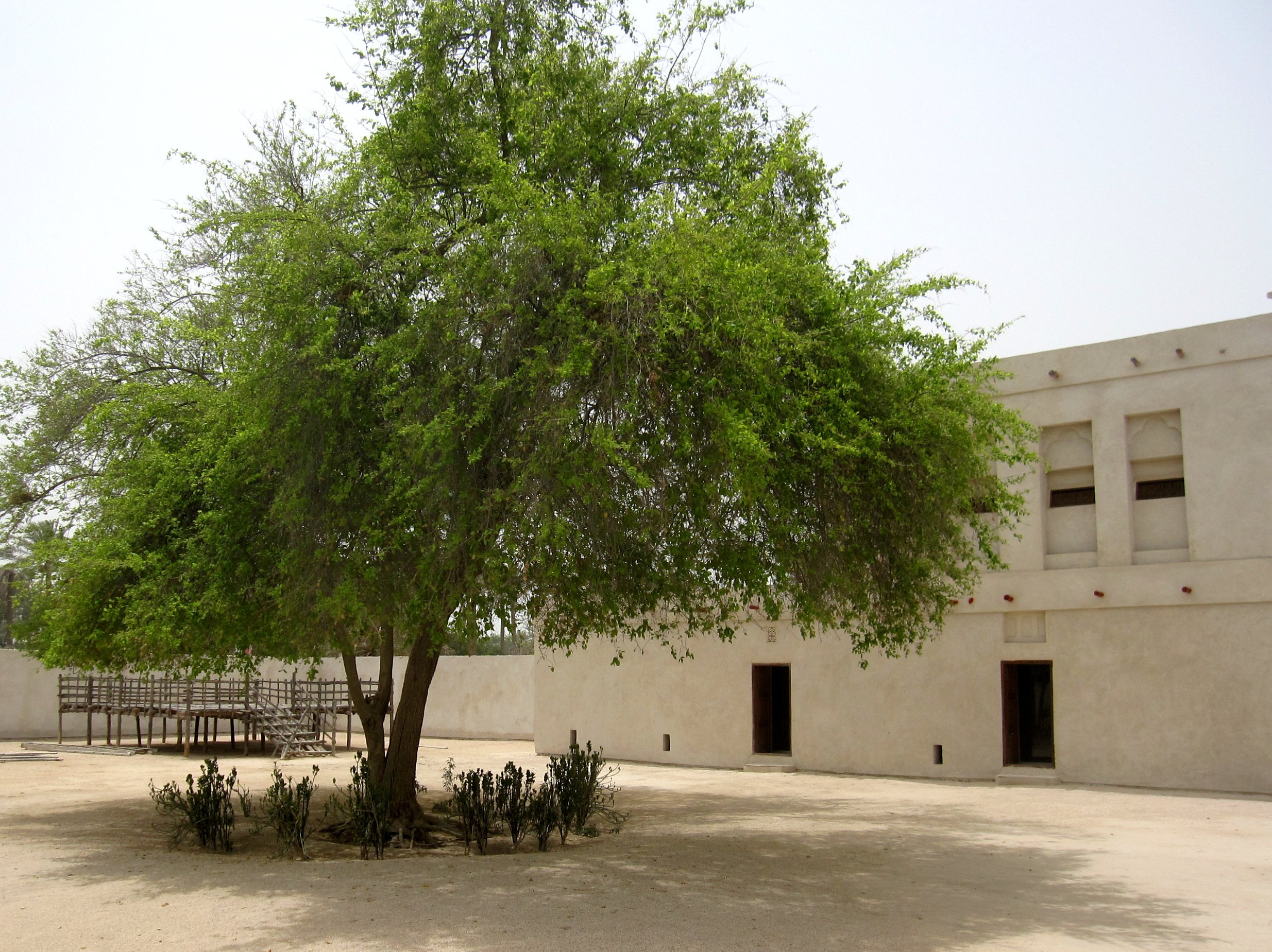 Birth home of a former emir, Bahrain.